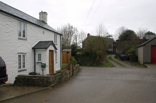 Trembraze The junction in the centre of a small hamlet northeast of Liskeard, at the eastern edge of the square.